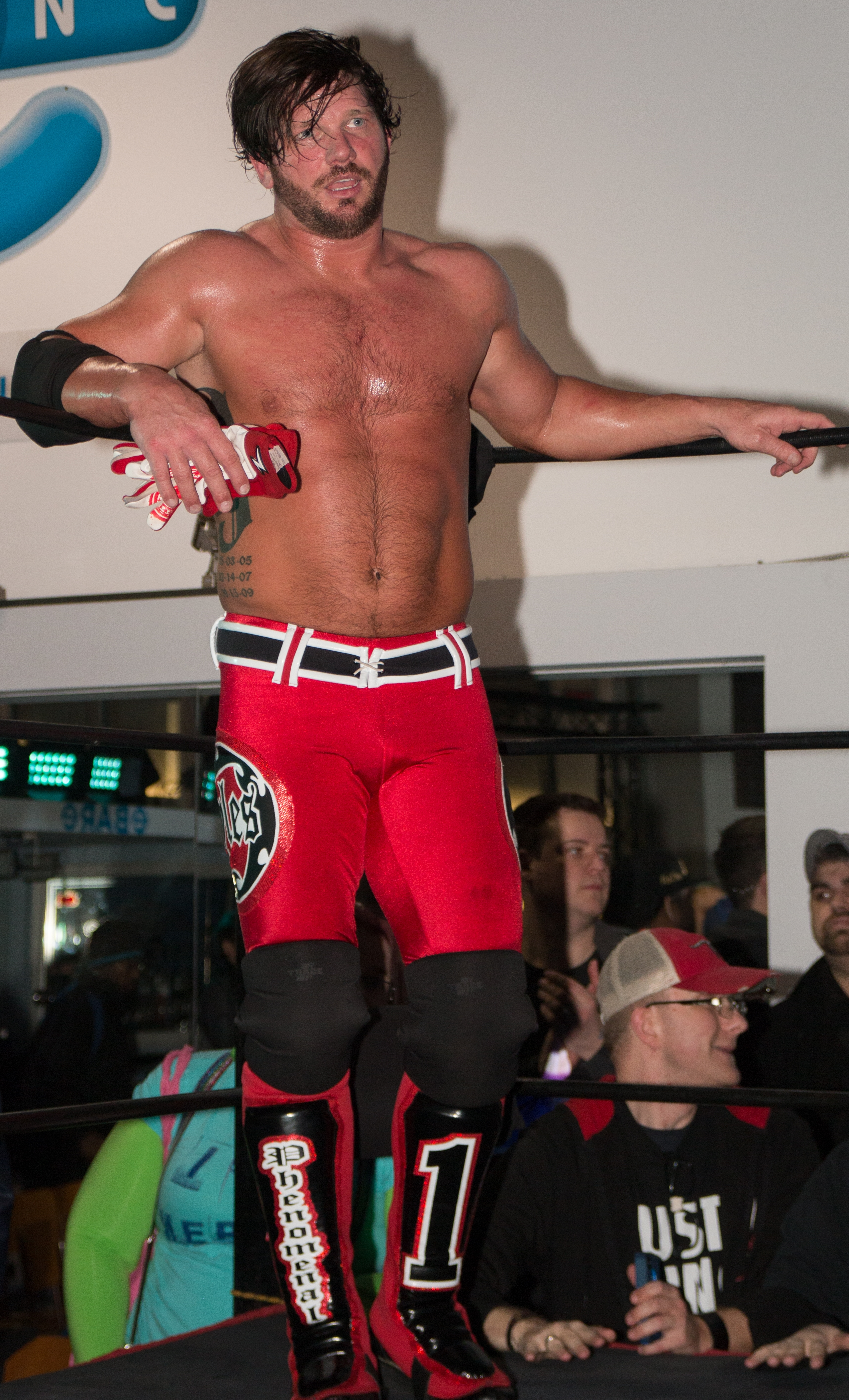 A.J. Styles in the ring at a Smash Wrestling show.